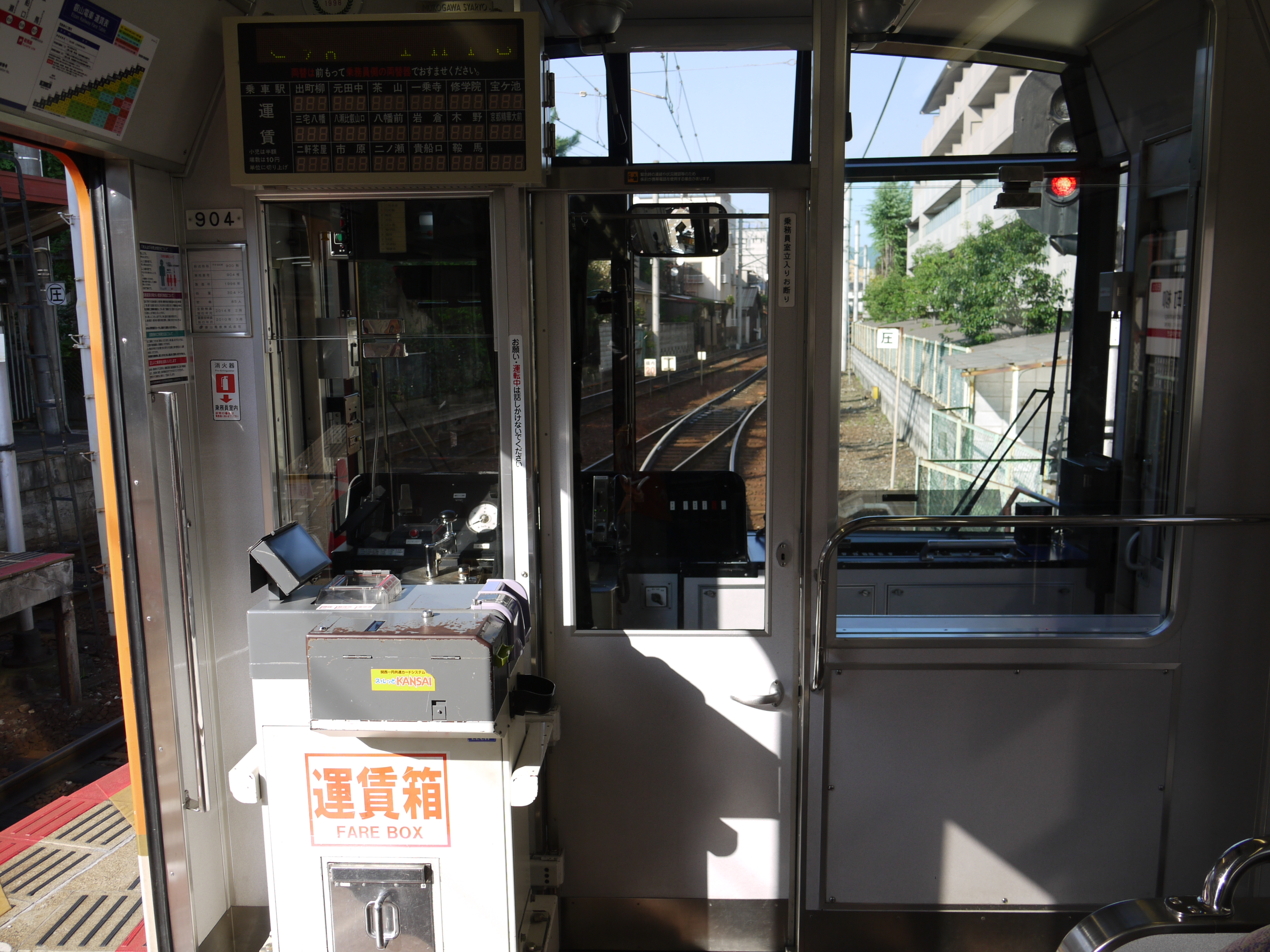 A wall between driver's cabin and passanger coach on Eizan Electric Railway